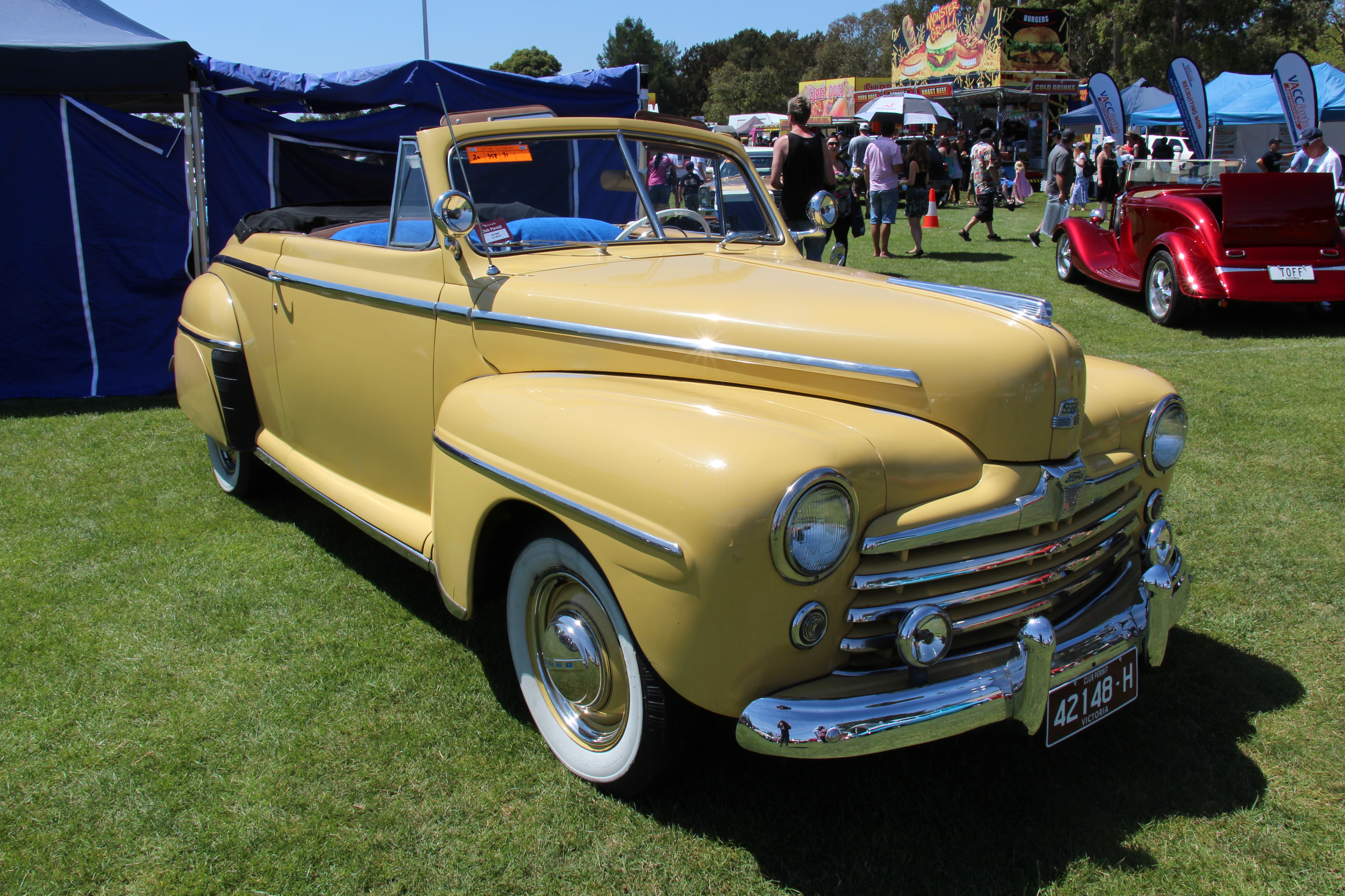 It was an all new car for 1941, a wider body that nearly covered the running boards, the front fenders more integrated and the headlights moved right forward. The 1941 car had a 3 piece grille, a tall centre section. For 1942, the grille looked like an electric shaver. Production on the 1942 Ford only lasted a few months, before all efforts were focused on the war. Some of these 1942 models were sold to the military for next 3 years. Civilian production resumed in July 1945. The 1945/46 Ford was identical to the 1942 model under the skin, though it got a new grille with horizontal bars and red accents. Very similar for 1947/48, visual differences included the removal of the red accents from the grille and the two small lights located just above it. Models available; Special, Deluxe and Super Deluxe. The 1941-48 Ford was also produced in Australia in V8 Sedan and unique to Australia, the Coupe Utility. Engines; 226 cu in l head 6 cyl or 221 and 239 Flathead V8s